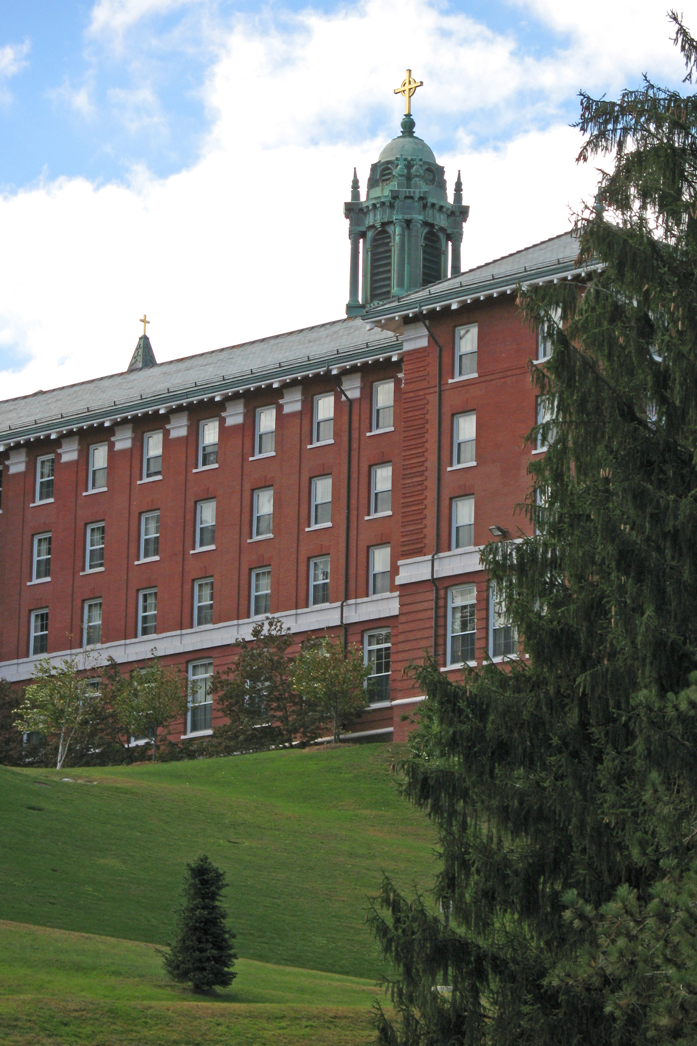 Alumni Hall, College of the Holy Cross